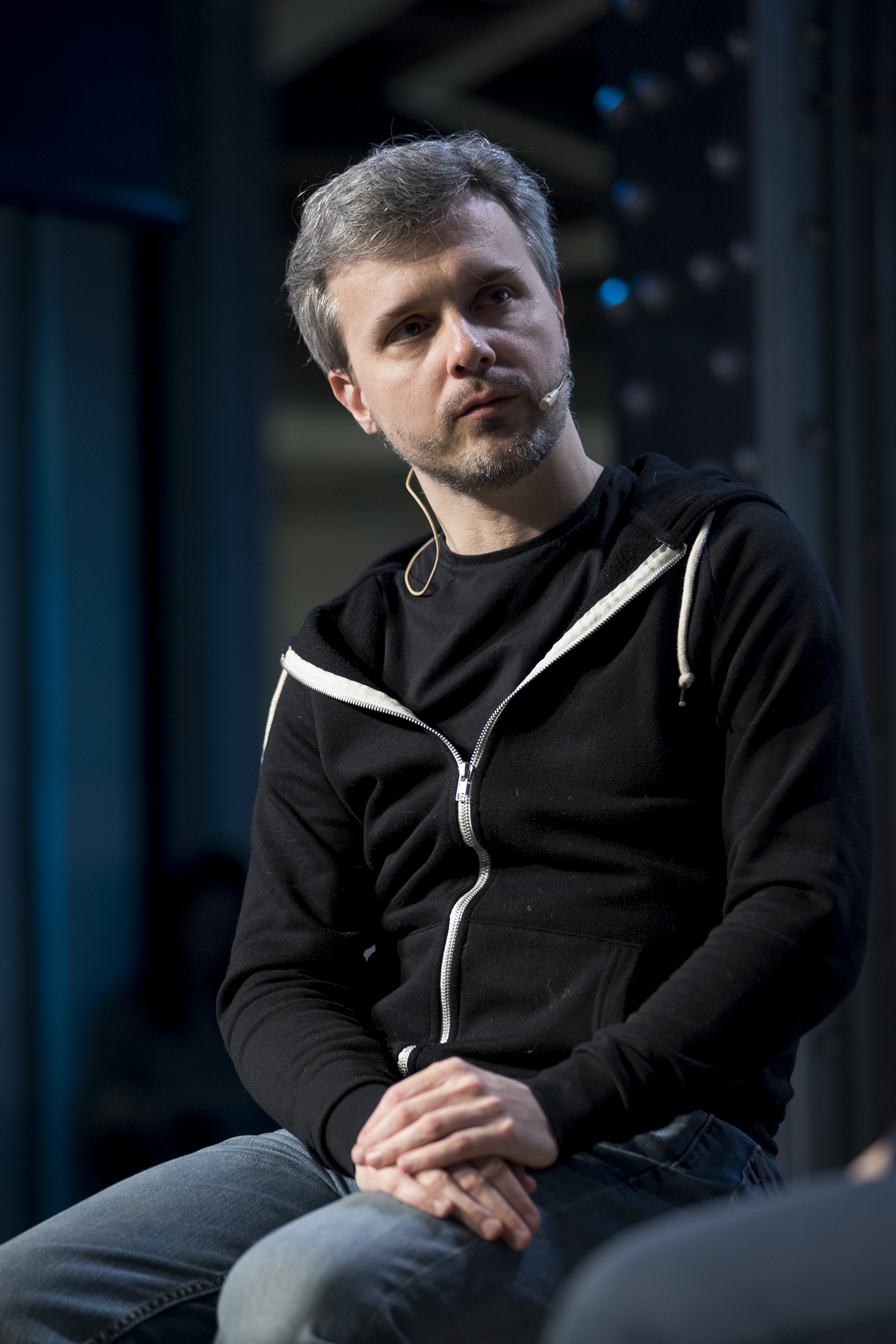 Juan Gomez-Jurado, spanish author.